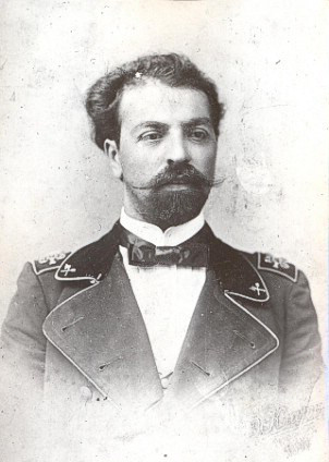 Zivar bey Ahmedbeyov